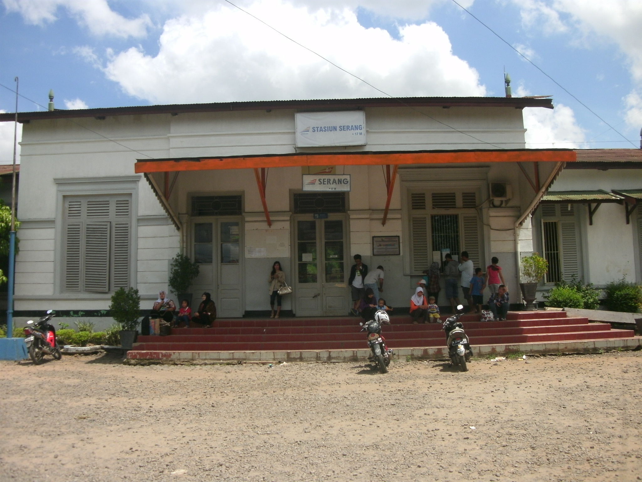 Front view of Serang Station.